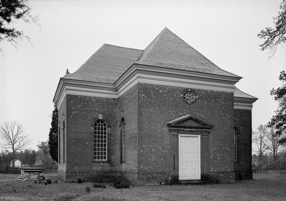 Front of Historic Christ Church (1735) in Lancaster County, Virginia.